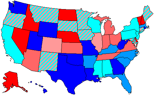 Summary of party control of U.S. house seats in the 93rd United States Congress following the 1972 election. Stripes indicate a tie between two or more parties. Legend: 80.1-100% Democratic seat majority 60.1-80% Democratic seat majority 60% or less Democratic seat plurality 60% or less Republican seat plurality 60.1-80% Republican seat majority 80.1-100% Republican seat majority